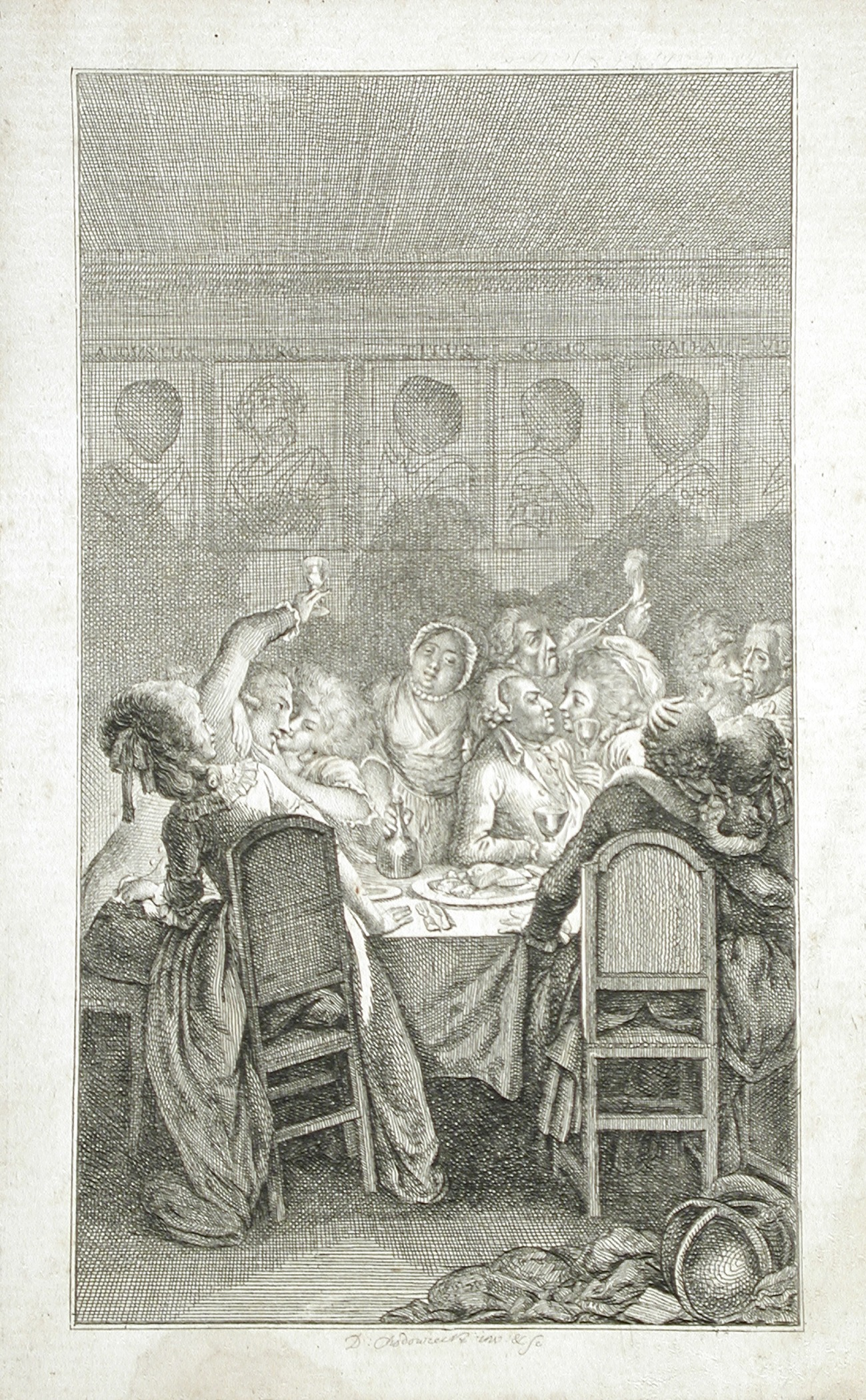 Germany, 1788 Alternate Title: Leben eines Liederlichen Prints; etchings Etching Gift of Mr. and Mrs. Stanley Talpis (55.102.474) Prints and Drawings